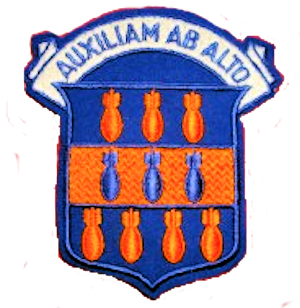 Emblem of the 334th Bombardment Group (World War II)